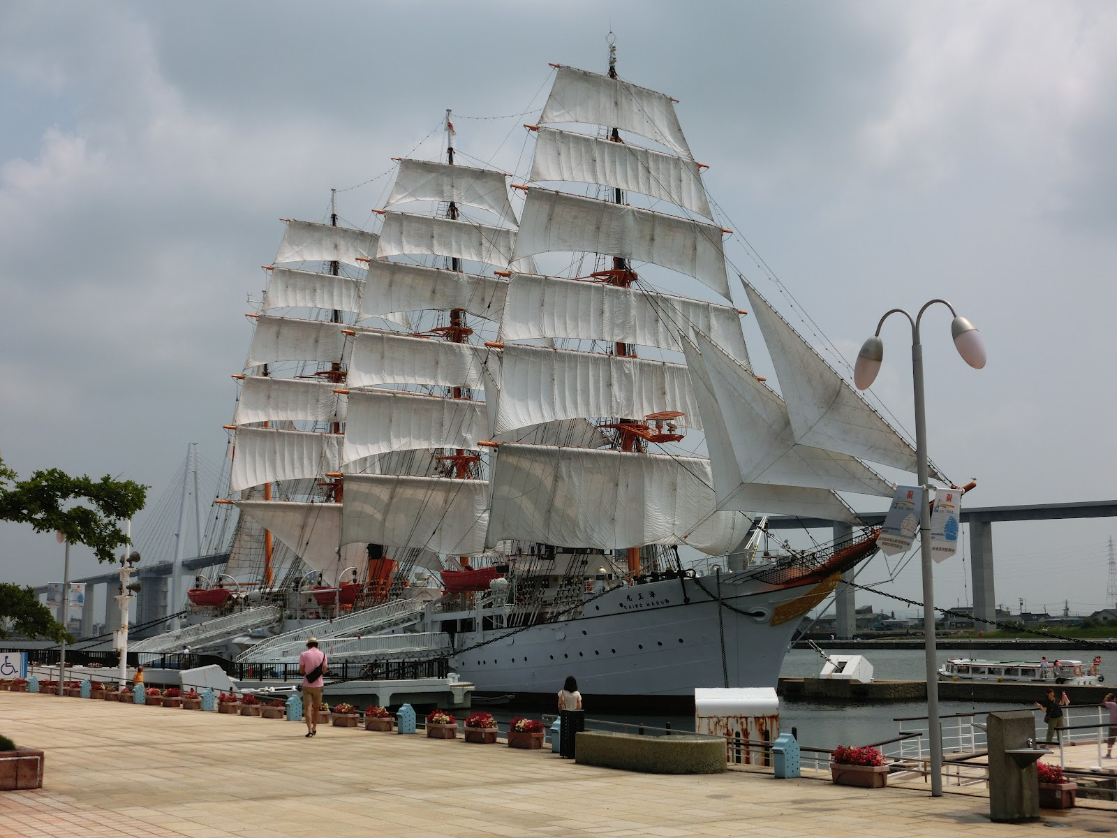 Kaiwo Maru at Fushiki Toyama Port